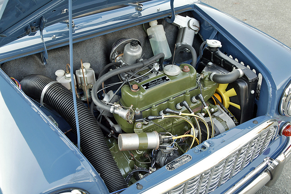 BMC A Series, Speed Well Engine installed in a Mini